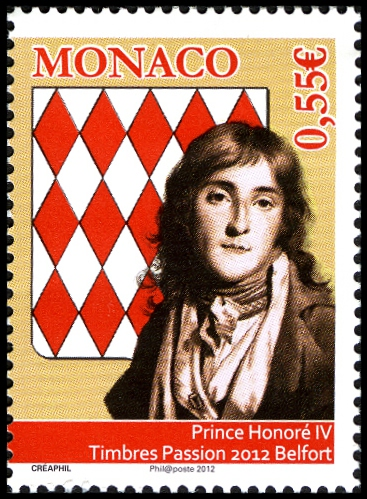 Stamp depicting Honoré IV